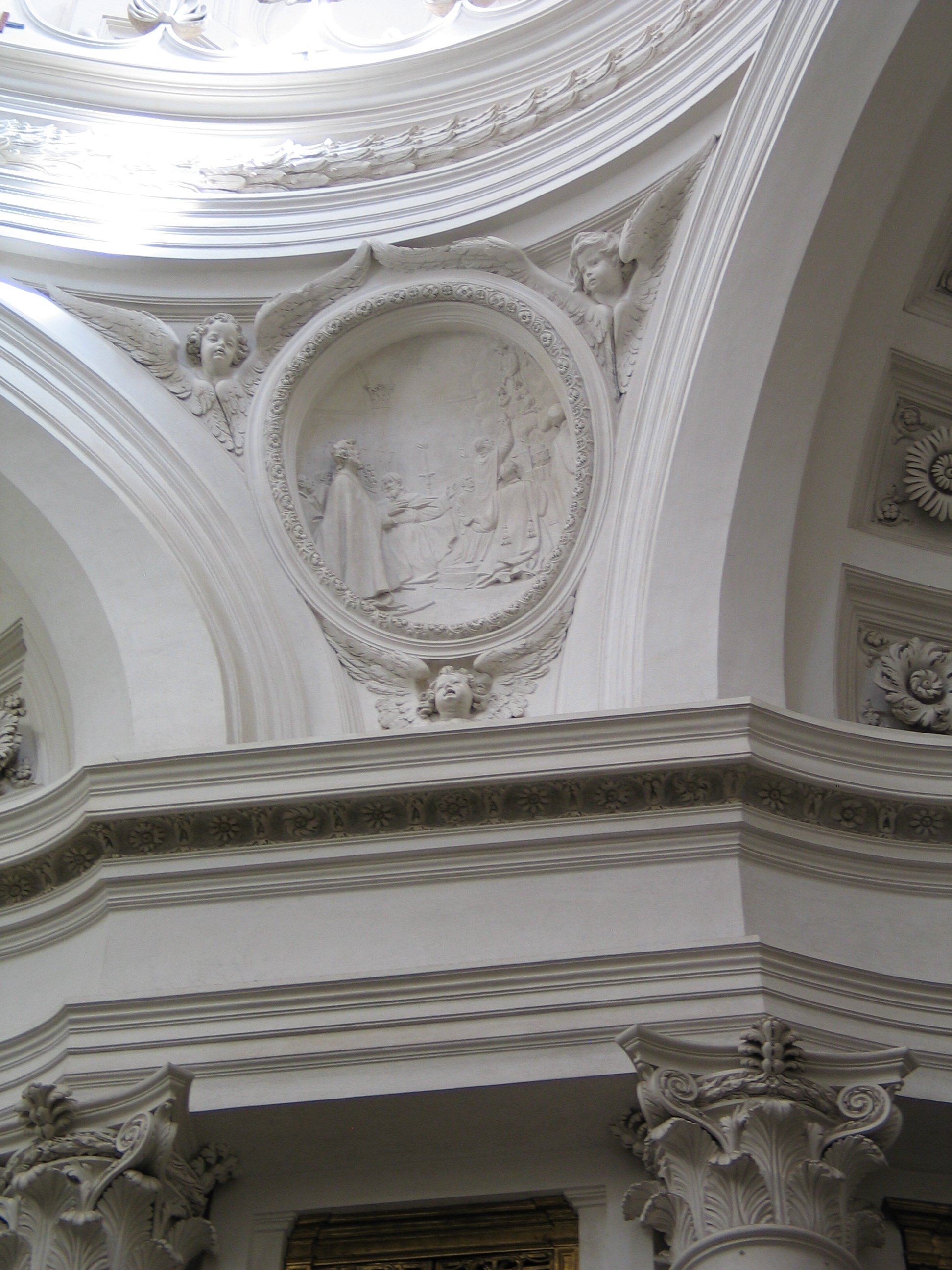 Tondo by Giuseppe Bernasconi and Giulio Bernasconi. Pope Innocentius III acknowledges the Trinitarian Order